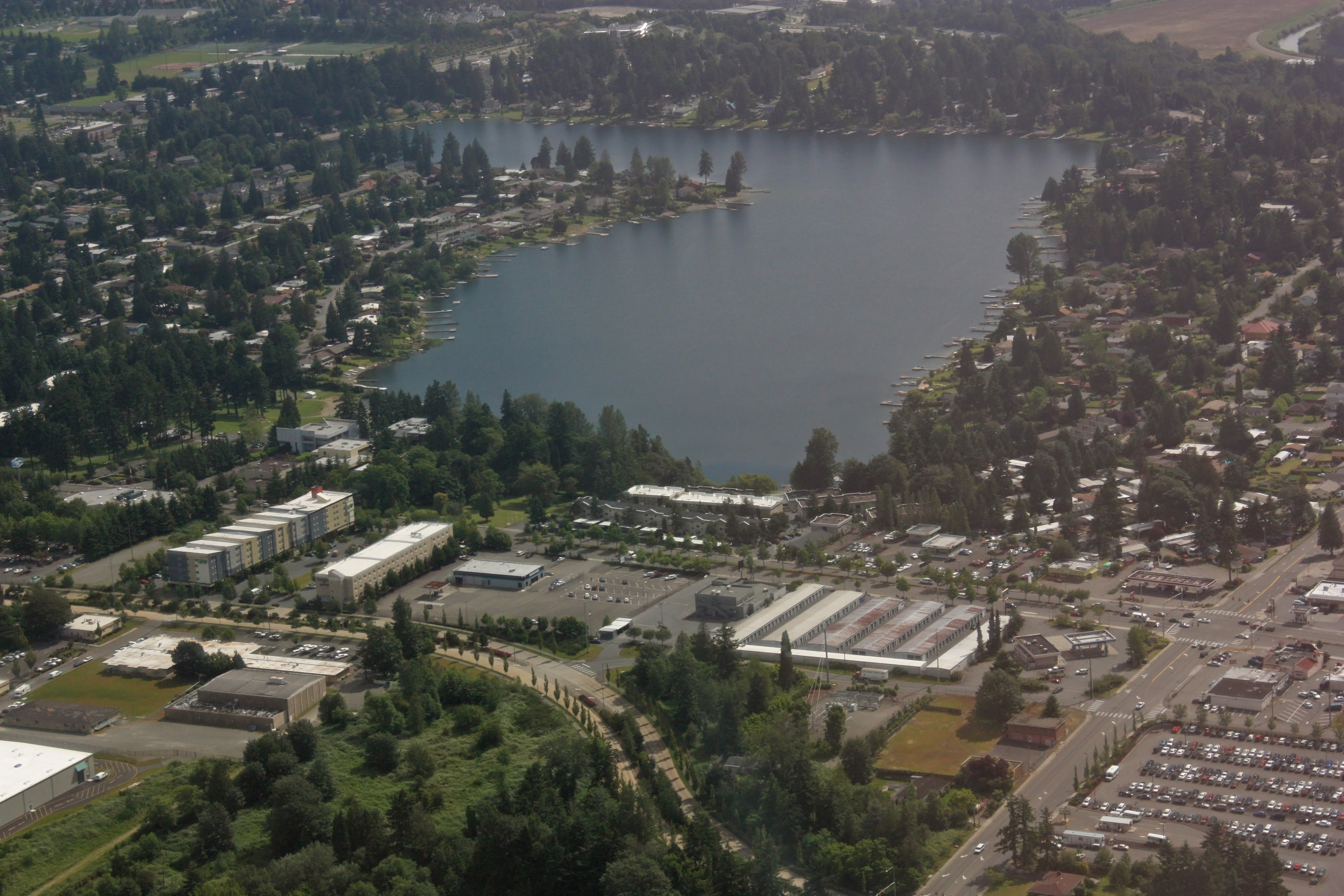 Angle Lake and Angle Lake Park (lower left shore of lake); Seattle SeaTac Airport Parking (lower right)